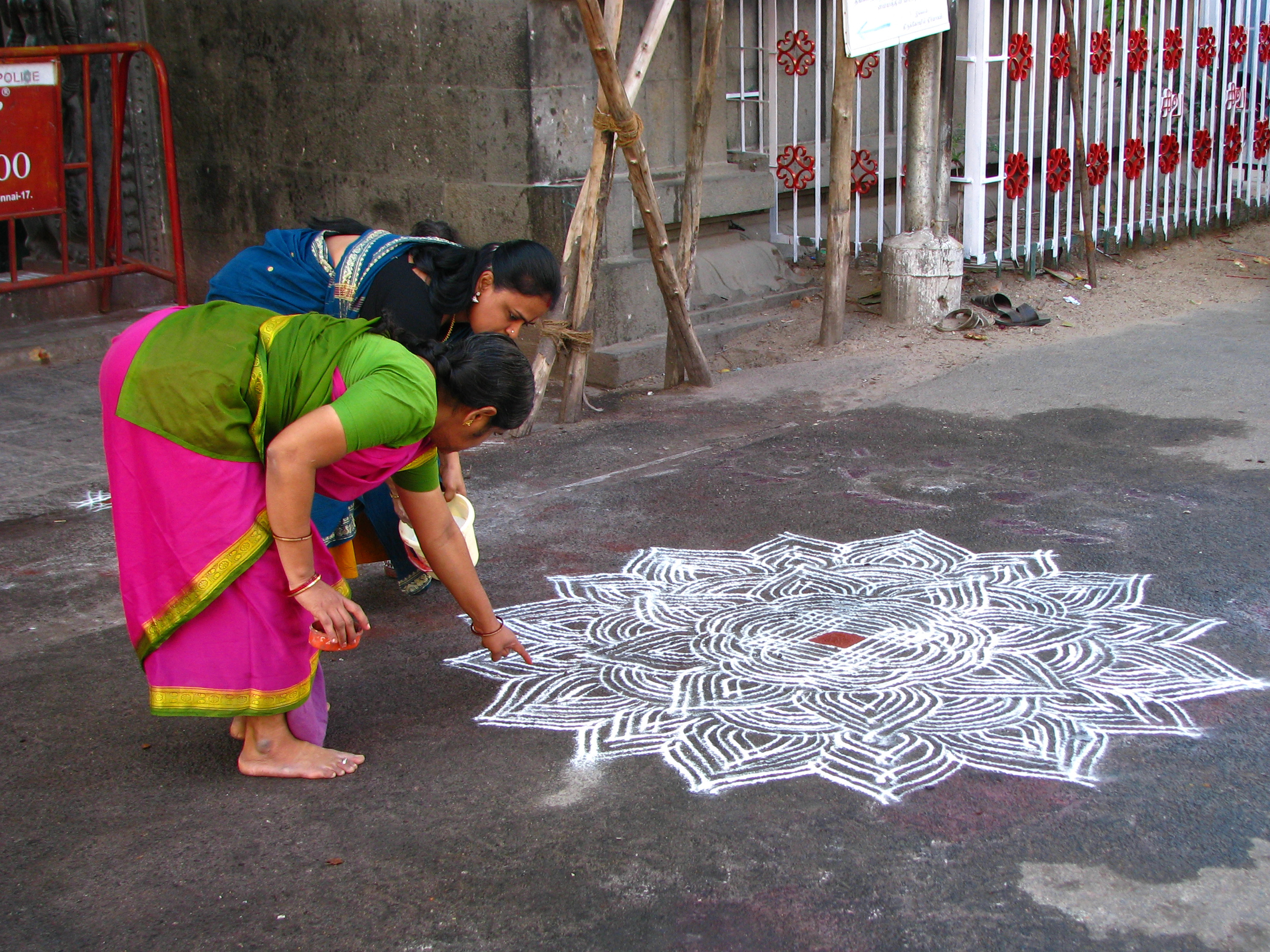 Women drawing a new kolam design on the pavement outside the Kapaleeshwarar Temple in Mylapore, Chennai. It was fascinating to see how smoothly and quickly she drew it with chalk/powder from her hand. She was actually laying out 2 parallel lines at once with her hand. These ground drawings are to invoke prosperity and as a welcome.